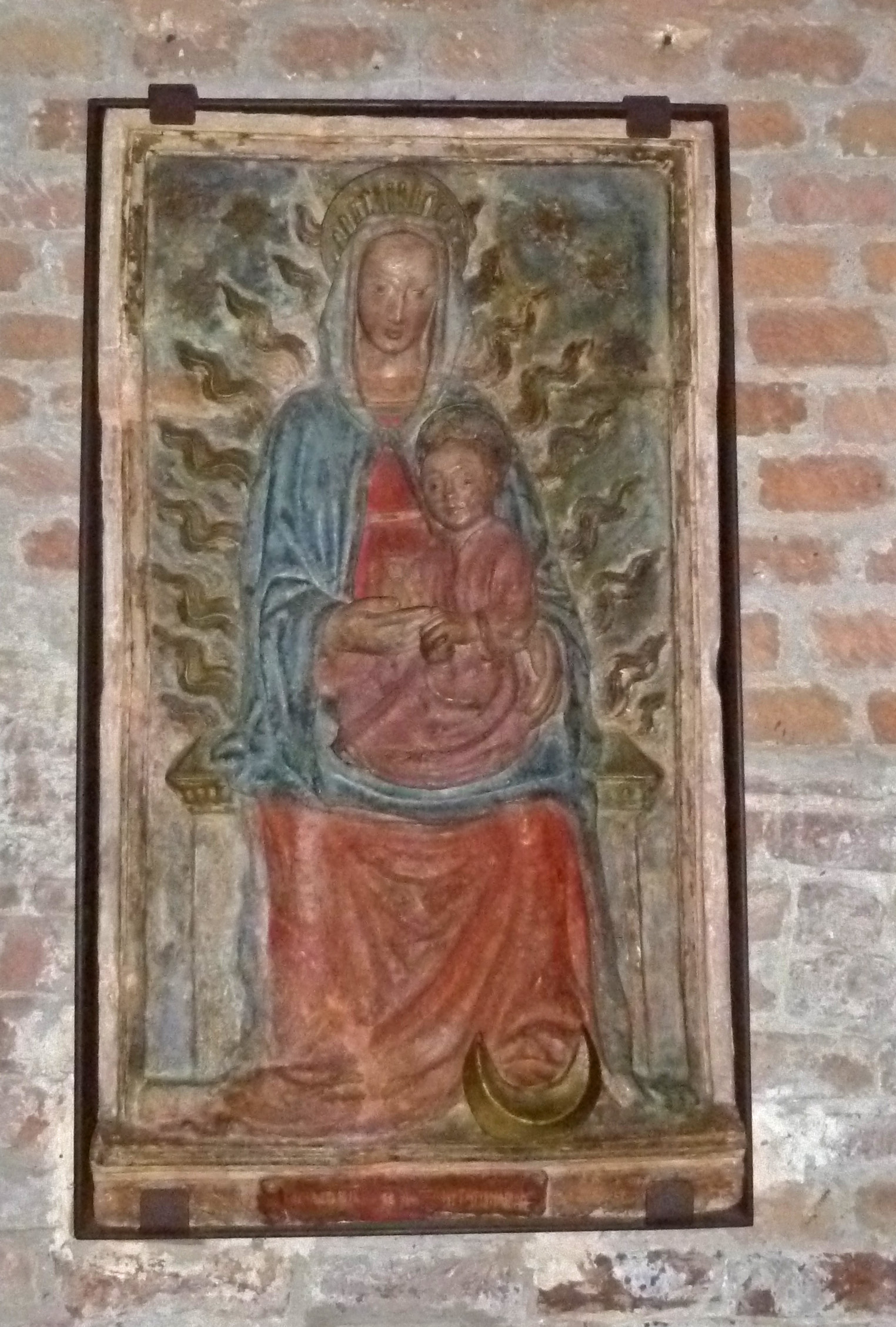 "Madonna with Child", high relief in colored terracotta (14th century); Depiction of "Revelation 12:1" "And now, in heaven, a great portent appeared; a woman that wore the sun for her mantle, with the moon under her feet, and a crown of twelve stars about her head";Interior of the Rotonda di San Lorenzo, Mantua, Italy